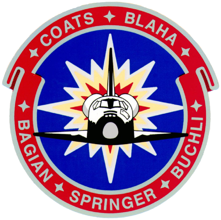 STS-29 Mission Insignia The STS-29 patch was designed to capture and represent the energy and dynamic nature of this nation's space program as America continues to look to the future. The folded ribbon border, the first of its kind in the Shuttle patch series, gives a sense of three dimensional depth to the emblem. The stylistic orbital maneuvering system (ONS) burn symbolizes the powerful forward momentum of the Shuttle and a continuing determination to explore the frontiers of space. The colors of the U.S. flag are represented in the patch's basic red, white, and blue background. In the border, the seven stars between the STS-29 crew names are a tribute to the crew of Challenger.